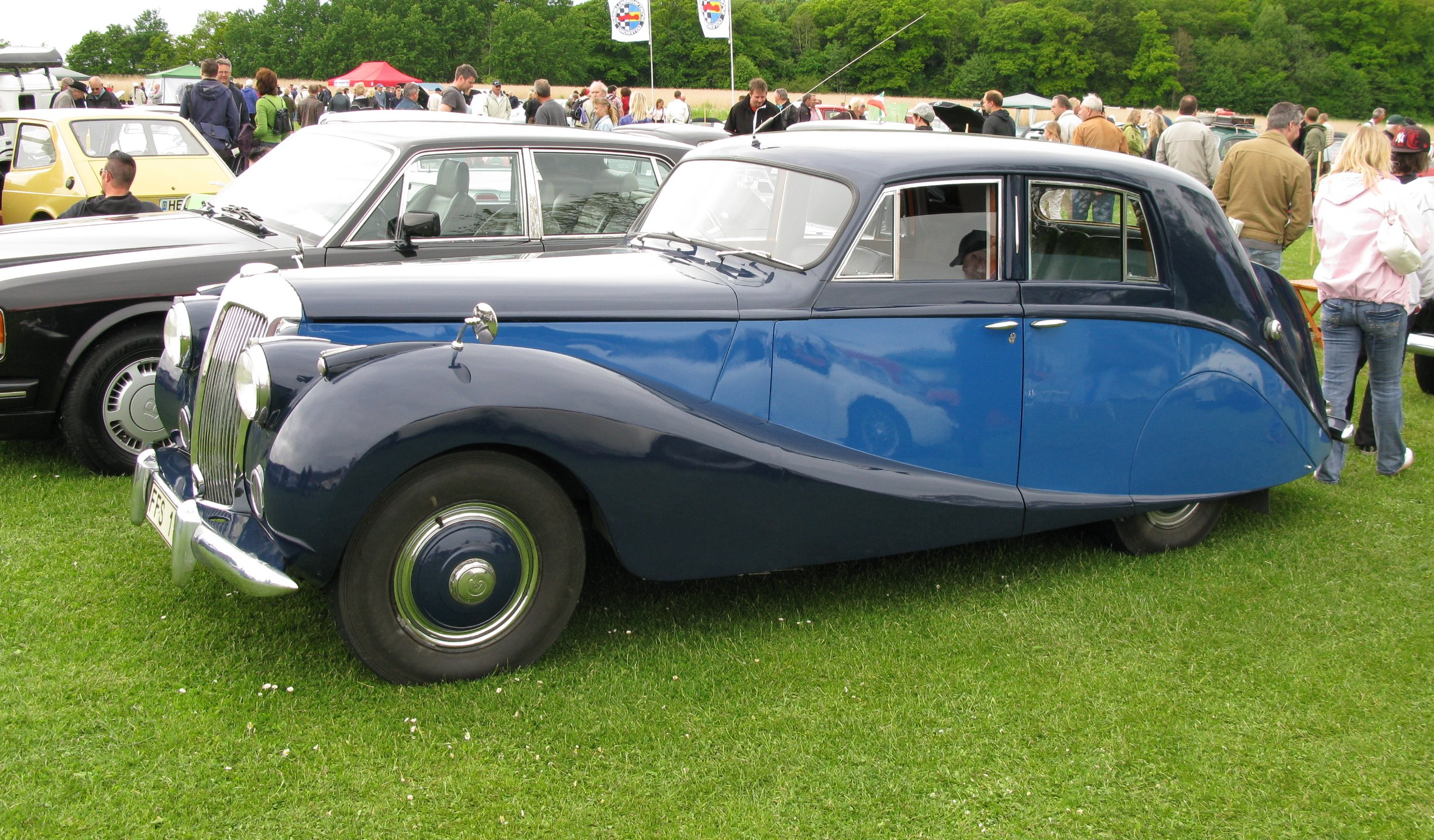 1951 Daimler DB18 Empress.The Empress was the most formal body on the DB18 chassis.Event: Tjolöholm Classic Motor 2009